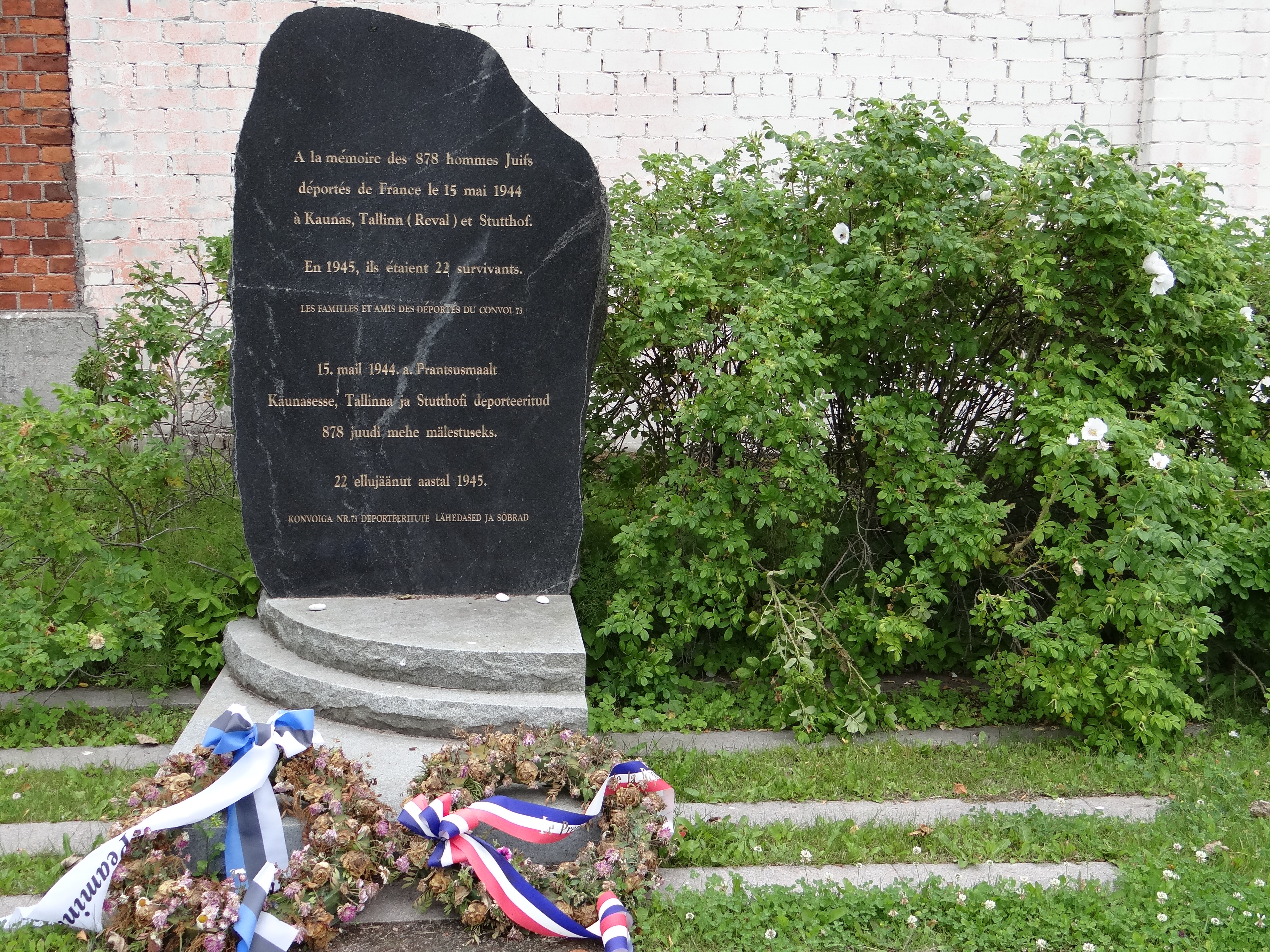 Memorial to Murdered French Jews of Convoy 73, Outside Patarei Prison. Tallinn, Estonia